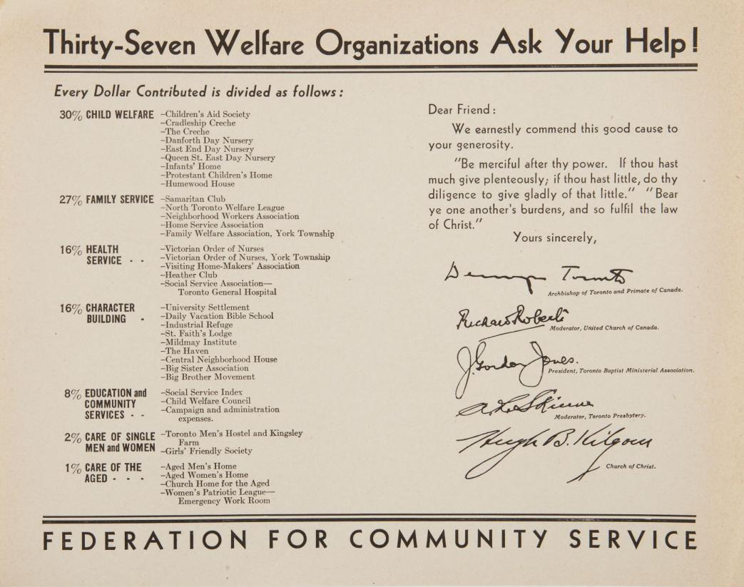 A broadside entitled "Thirty-seven Welfare Organisations Ask Your Help!" and published by the Federation for Community Service in Toronto, Ontario, Canada. It provides a breakdown of how donations are divided among member agencies. The broadside is signed by five religious leaders from Toronto churches. Organisations such as the Federation for Community Service were predecessors to the United Way of Canada. The broadside is undated, but was signed by Richard Roberts as Moderator of the United Church of Canada (a position he held from 1934-1936) and by Derwyn Owen as Primate of Canada, a position also held from 1934.